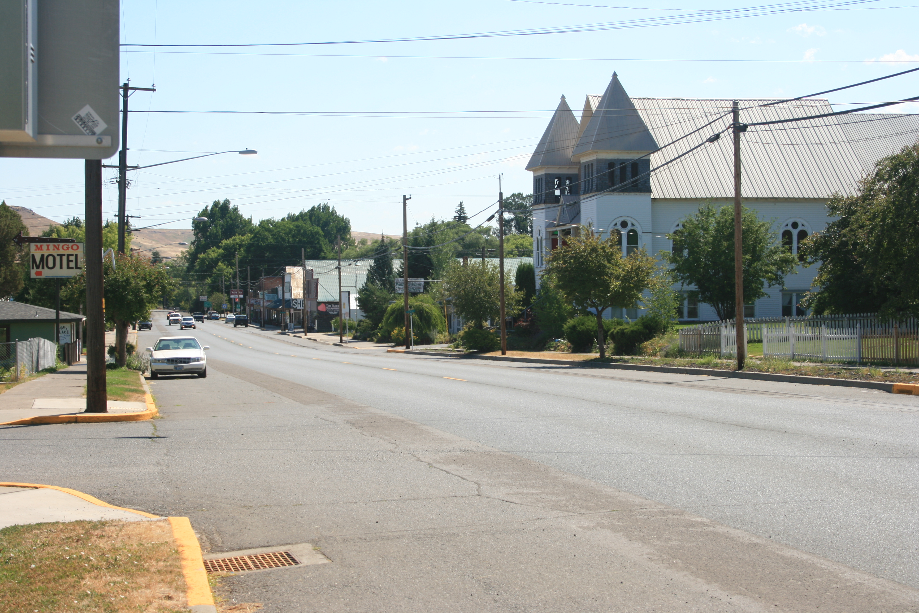 For use is in the Wallowa, Oregon article. Photo taken August 6th, 2011 by uploader. Skål - Williamborg (talk) 03:36, 8 August 2011 (UTC)